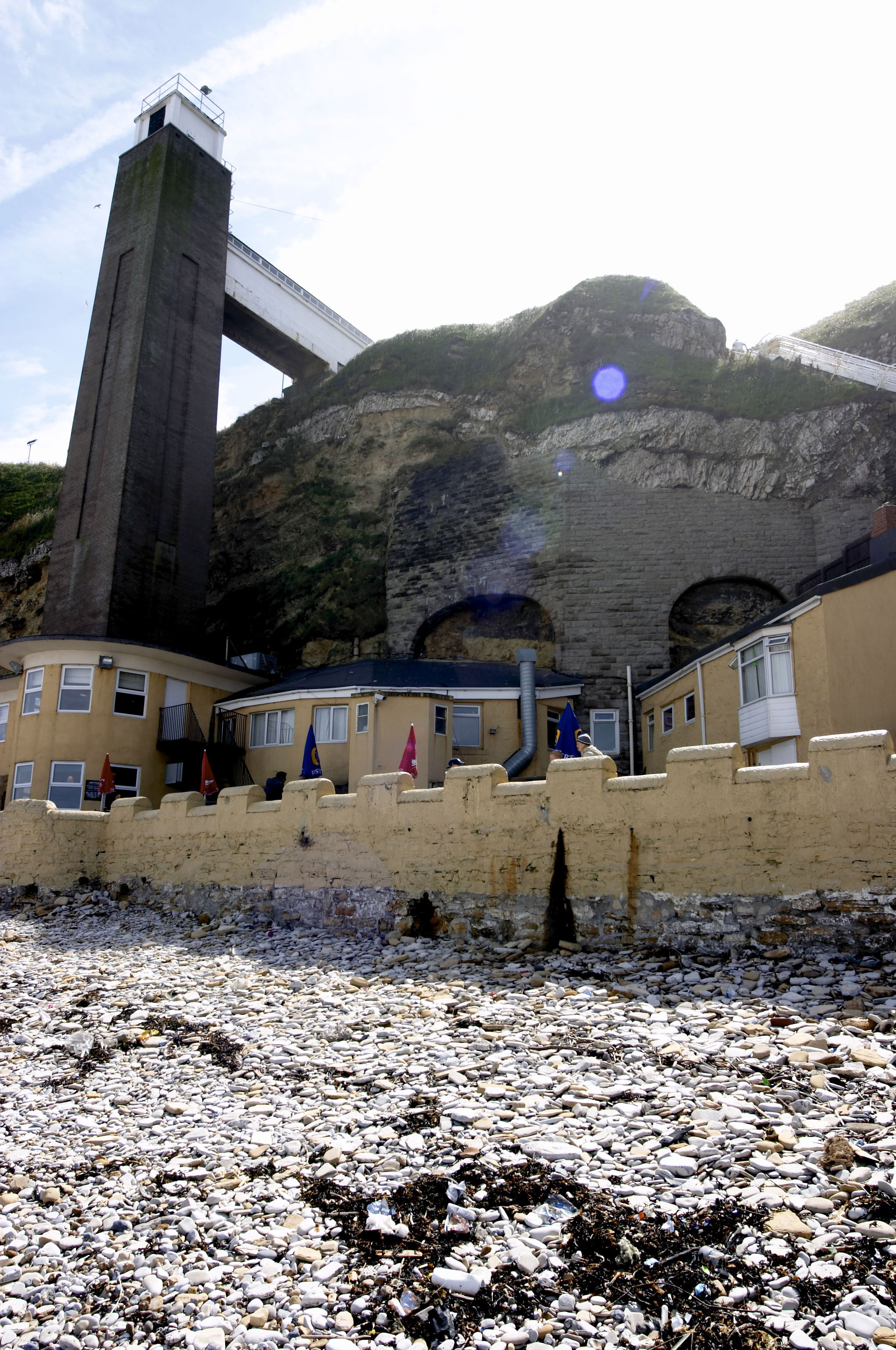 The Marsden Grotto, Marsden Bay, Tyne and Wear, England. PaulLomax, 2005